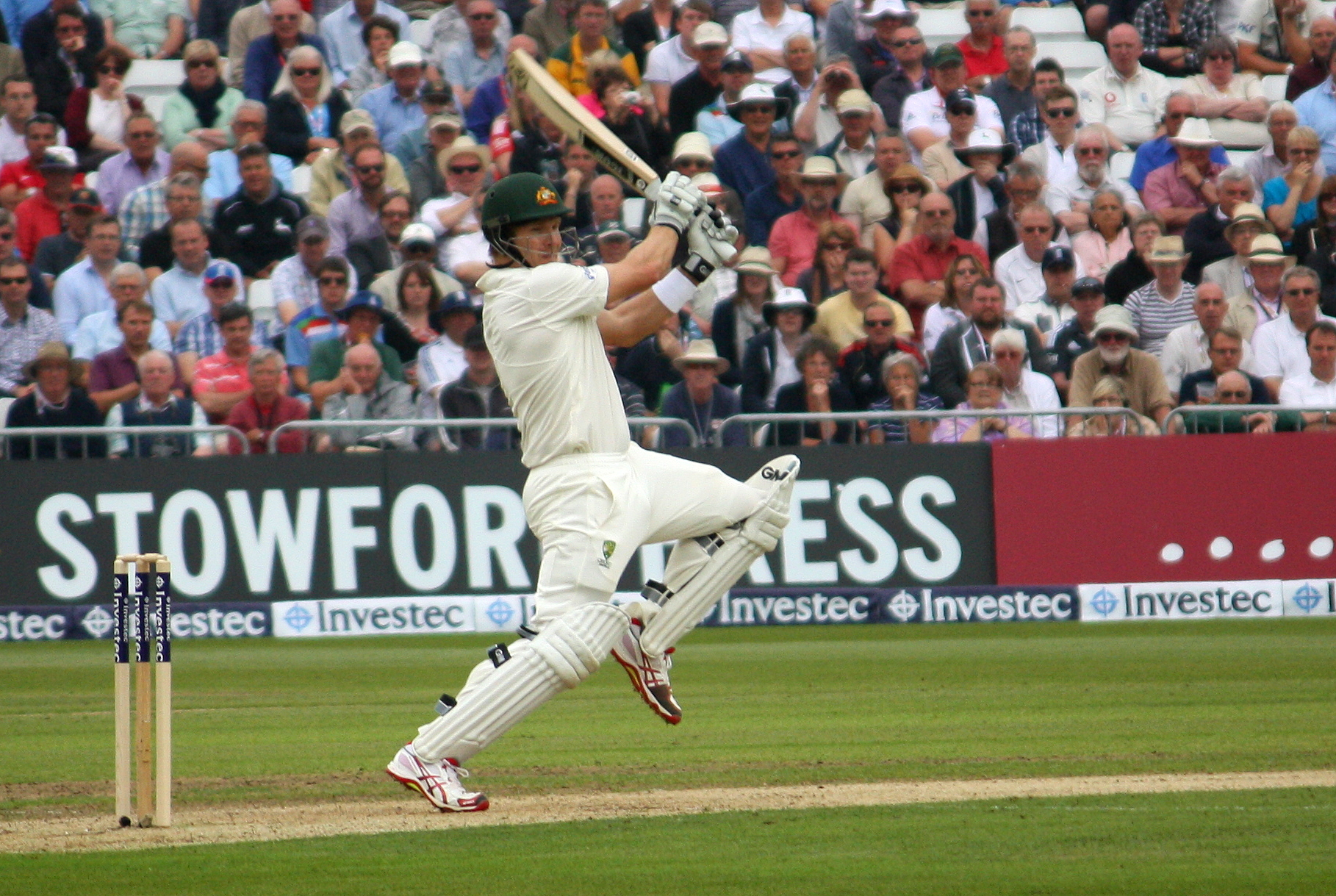 Shane Watson 2013